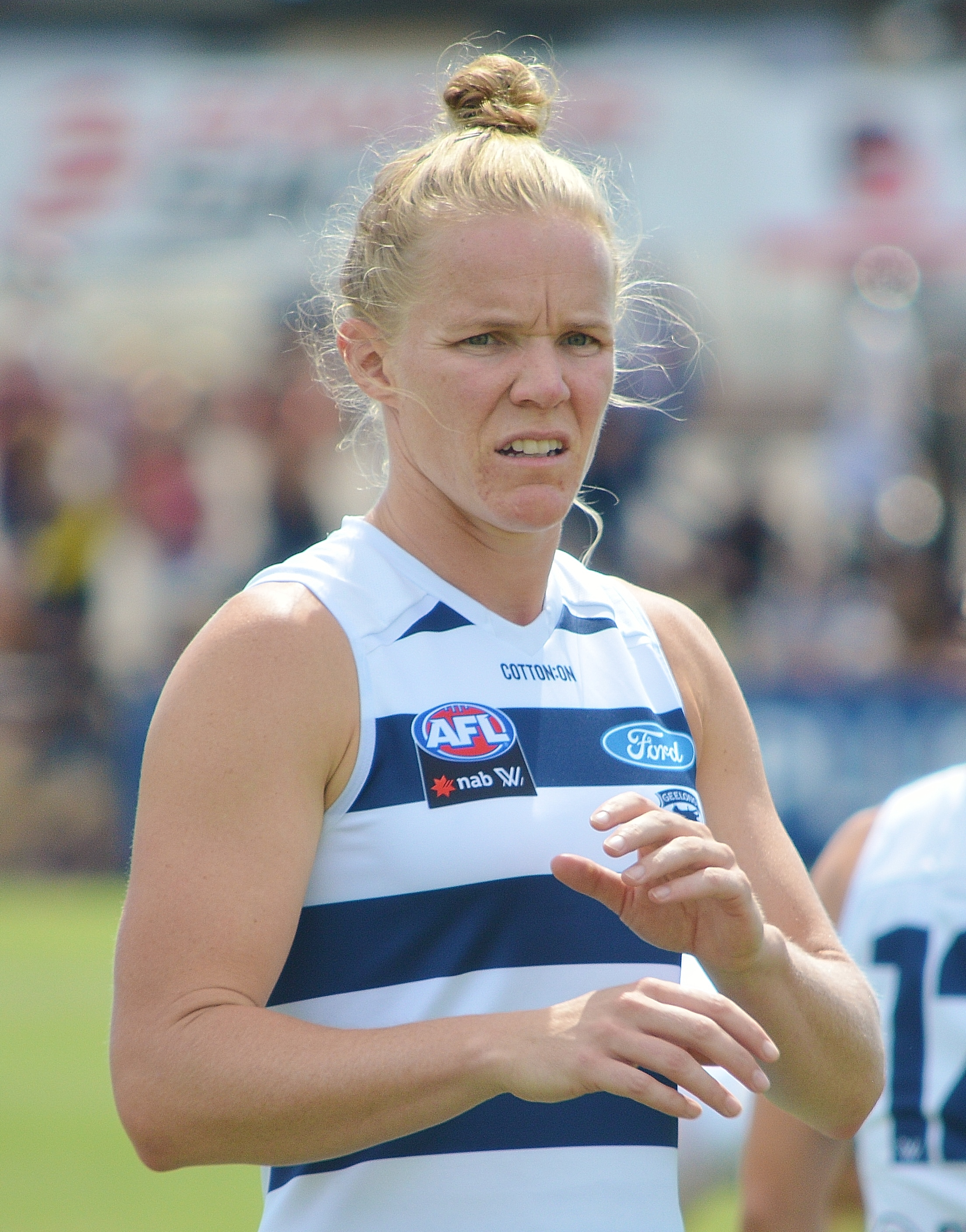 Kate Darby with Geelong in the round 4 2020 AFLW match against Richmond at Queen Elizabeth Oval in Bendigo.